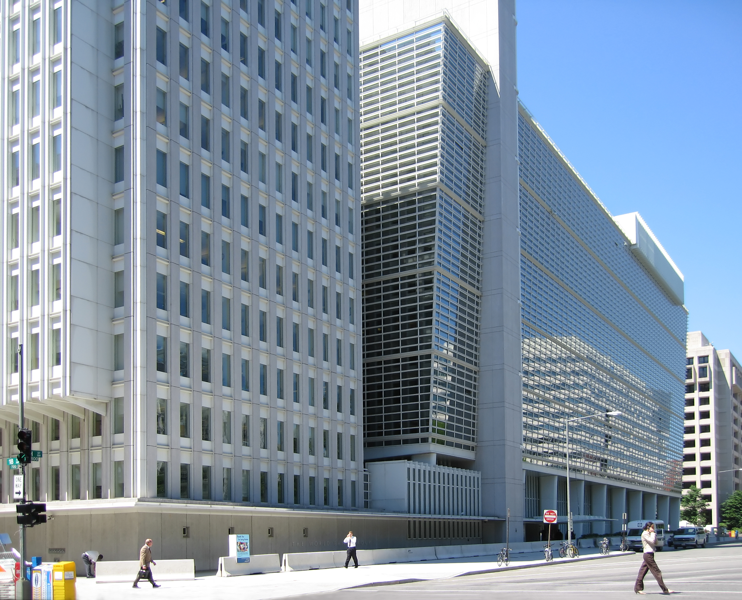 The World Bank Group headquarters building in Washington, D.C. Designed by Kohn Pedersen Fox.The World Bank, in Washington.